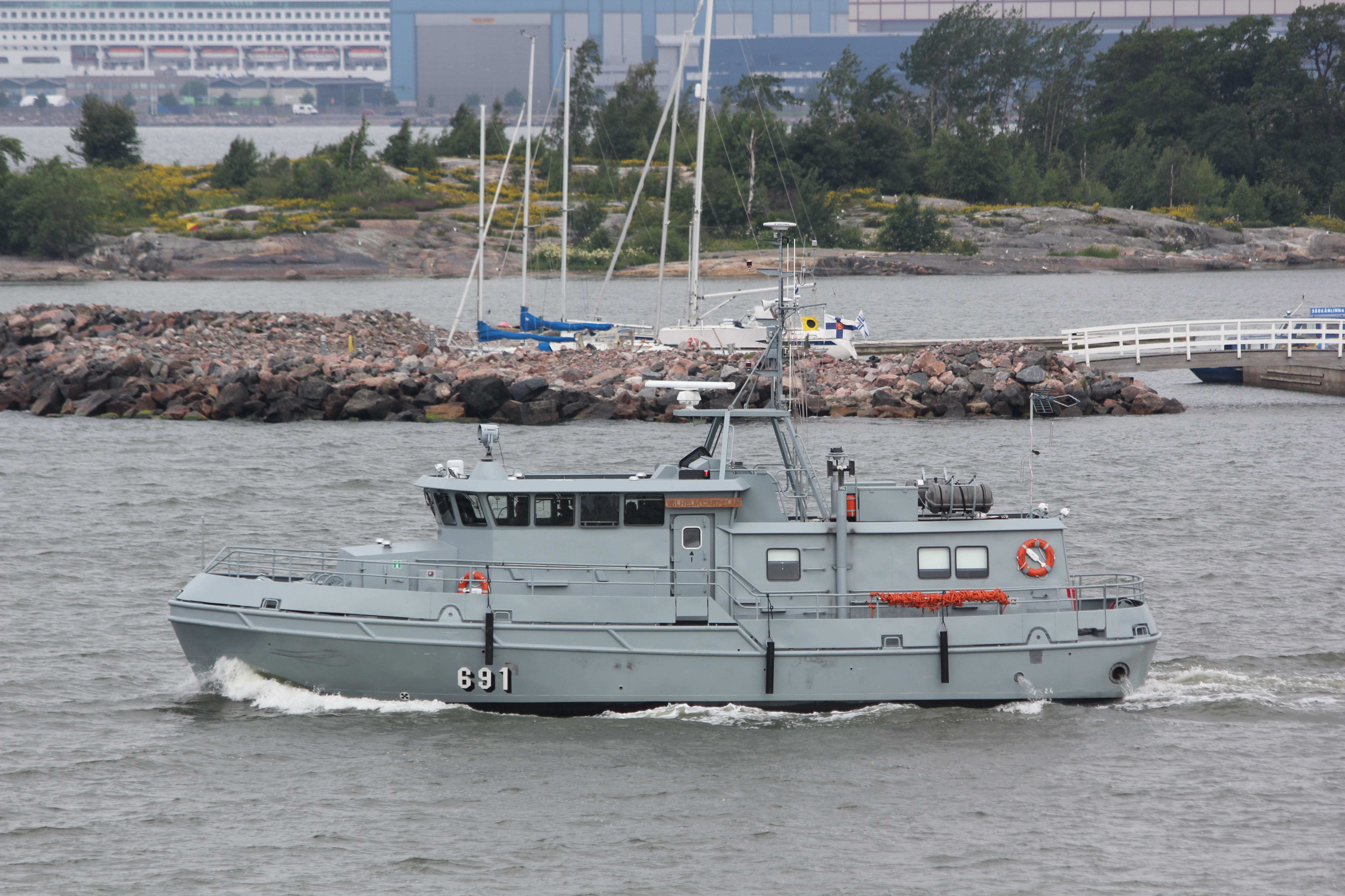 Finnish training ship Wilhelm Carpelan in Särkänsalmi strait on the morning after the Finnish navy 2012 anniversary.